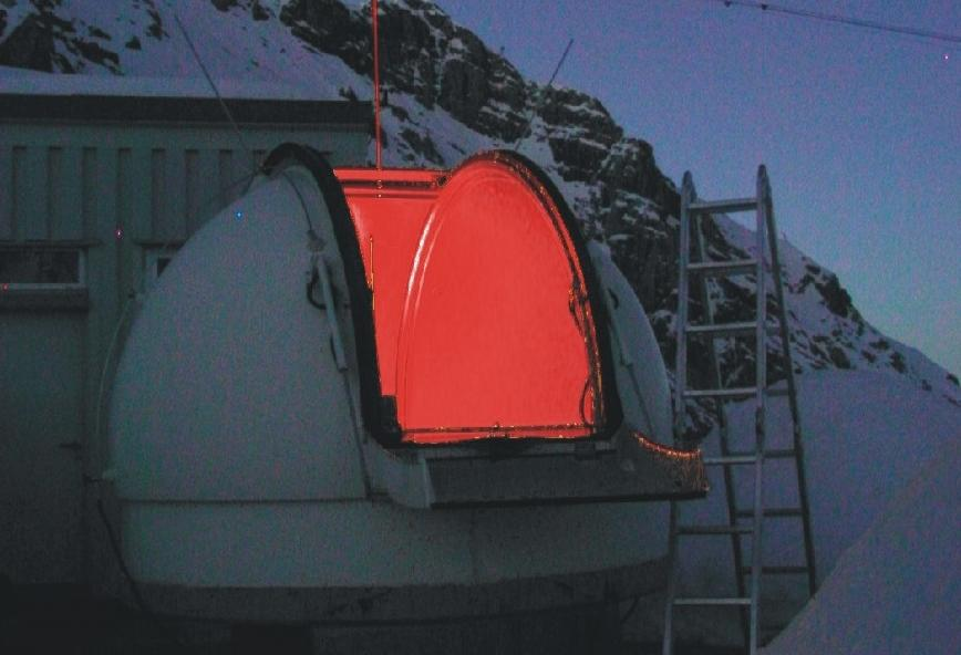 Water vapour LIDAR at the Zugspitze